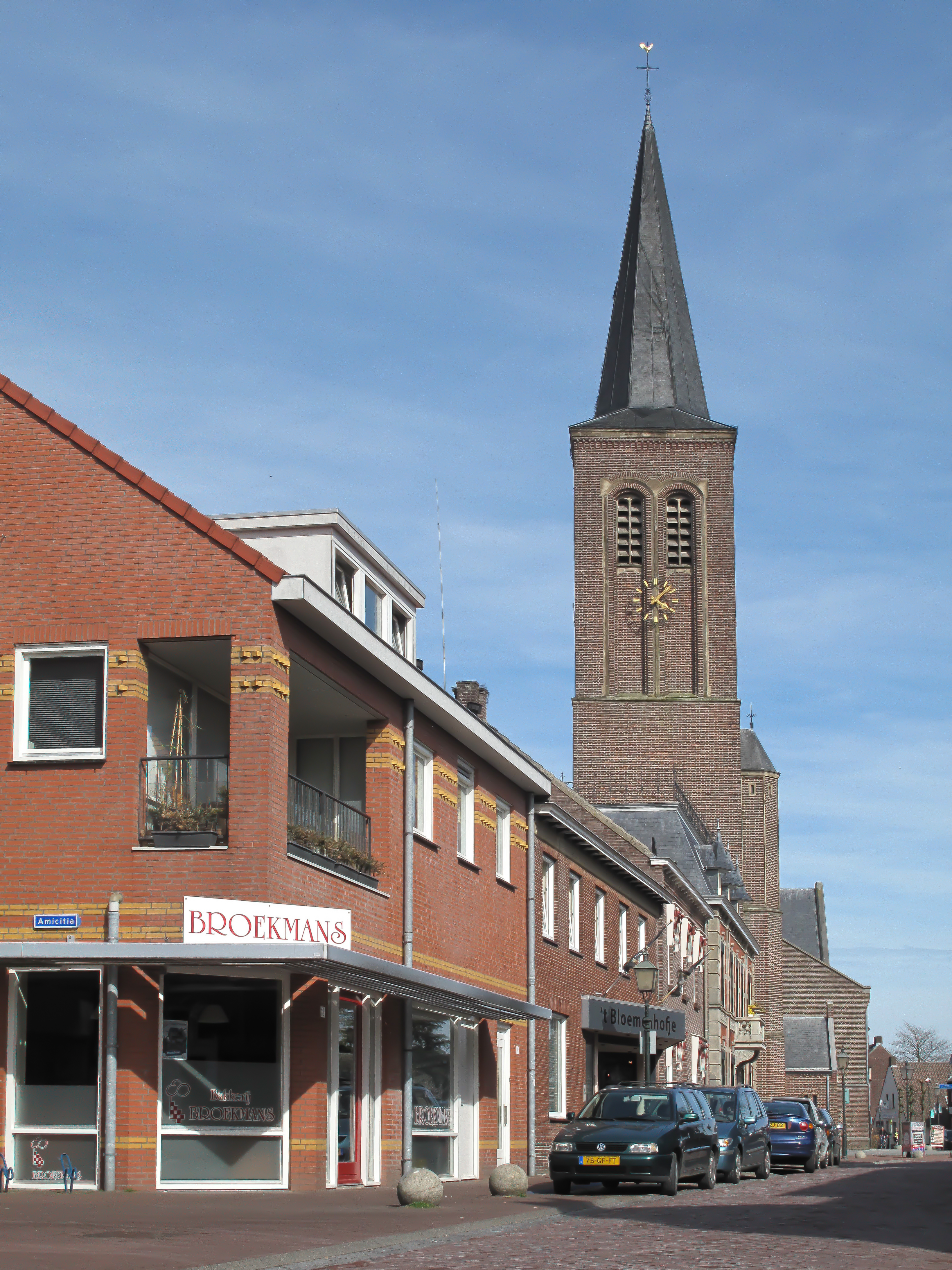 Maasbree, katholic church